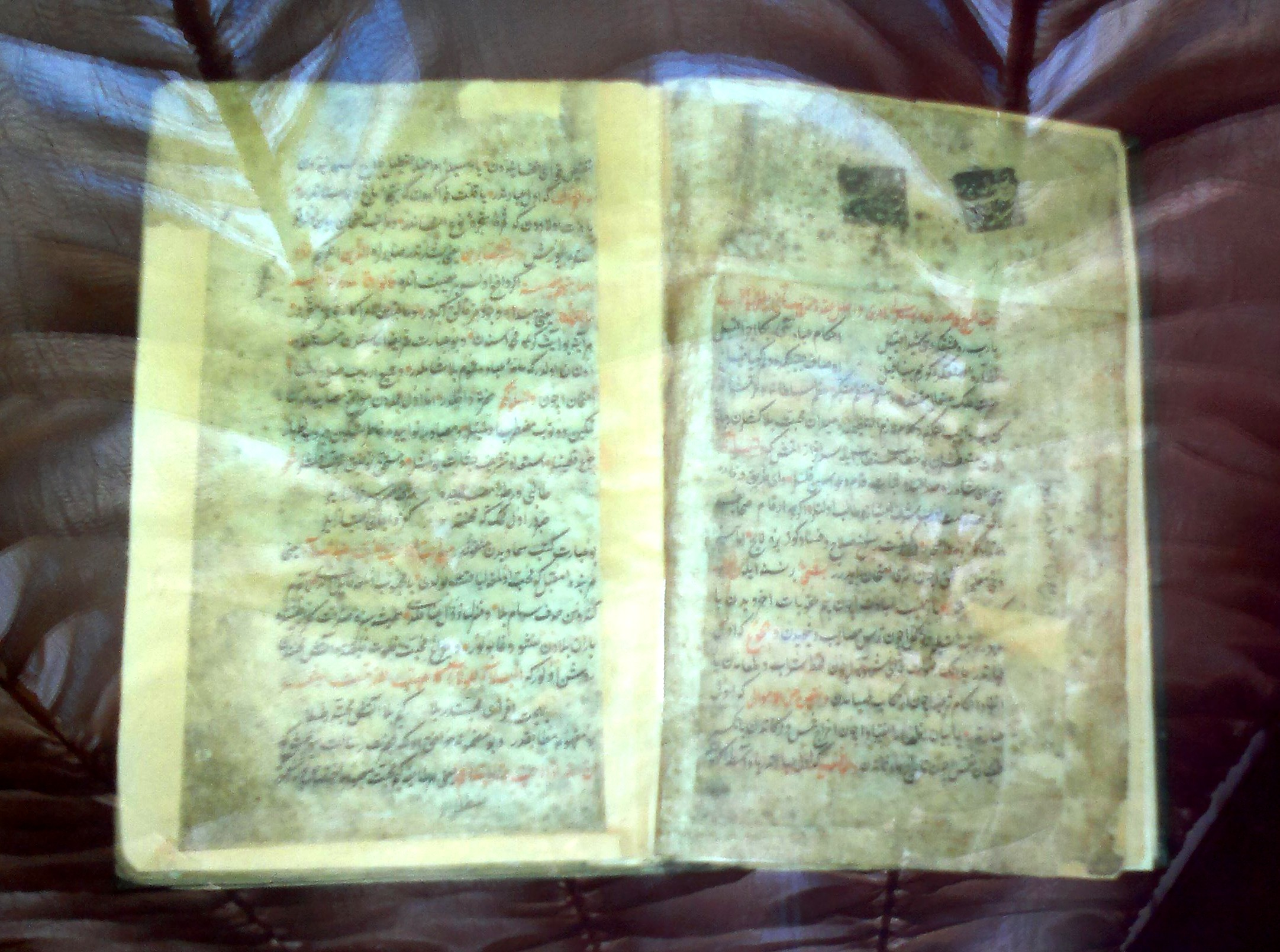 Muhammad Fuzuli. "Garden of Pleasures". It deals with Karbala tragedy. In Azerbaijani. Bagdad. Early 19th century. There is Shaki khan's seal on it.